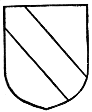 Fig. 65.—Bend.